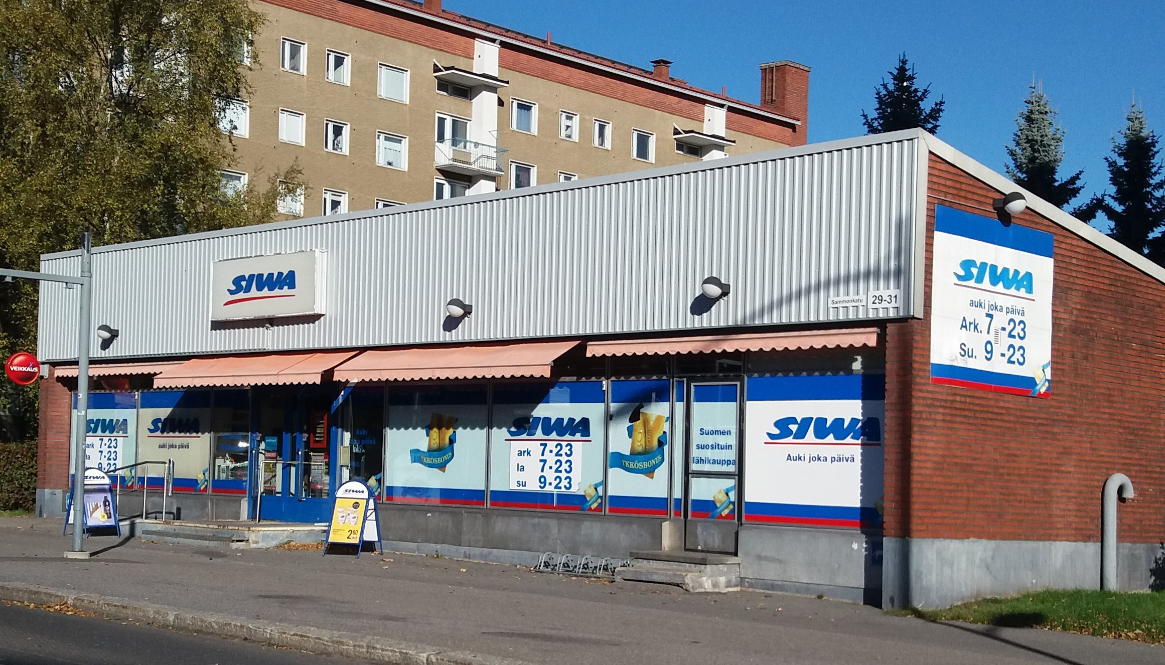 Siwa store in Tampere